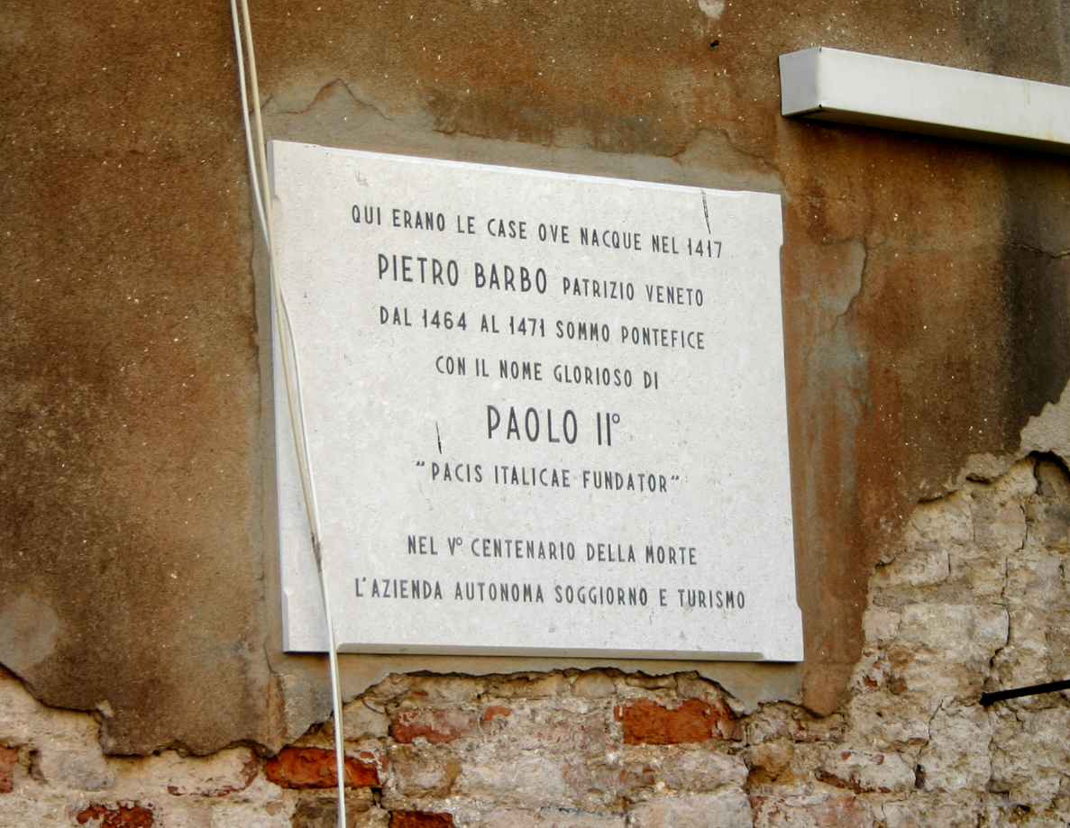 Venice: plaque on the facade of the house built on the spot where once stood the birthplace of pope Paul II, in Calle della Pietà. Picture by Giovanni Dall'Orto, August 12, 2007.